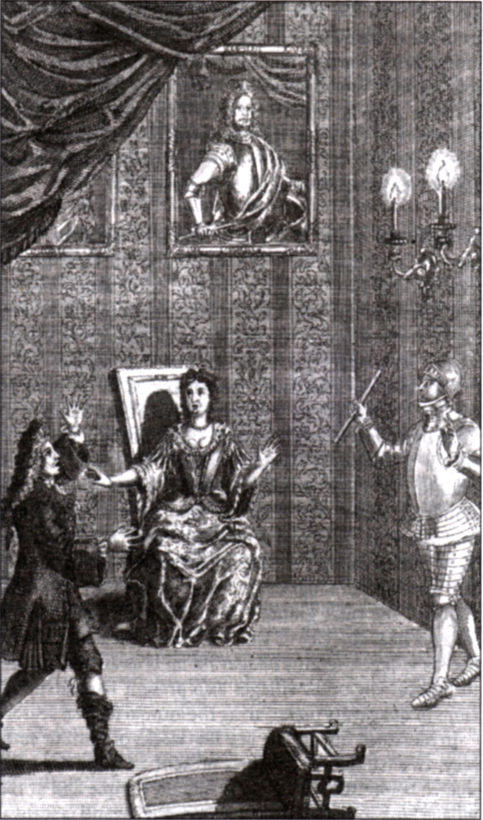 17th century English actor Thomas Betterton in a scene from William Shakespeare's Hamlet, in which the Ghost of Hamlet's Father confronts him in his mother's chamber.